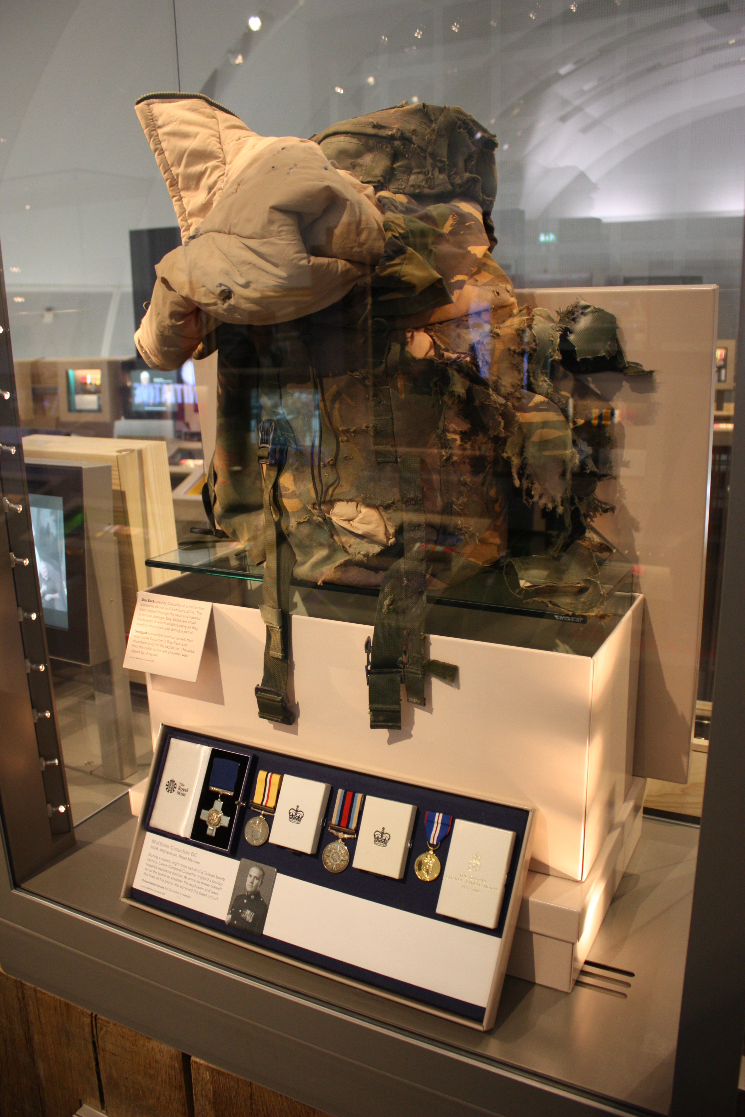 The shrapnel damaged backpack worn by Matt Croucher during the actions that earned him the George Cross. Croucher jumped on a Taliban tripwire grenade, absorbing the blast in an attempt to save the lives of his comrades. His medals can also be seen in front of the backpack. It is on display in the Ashcroft Gallery in the Imperial War Museum, London.